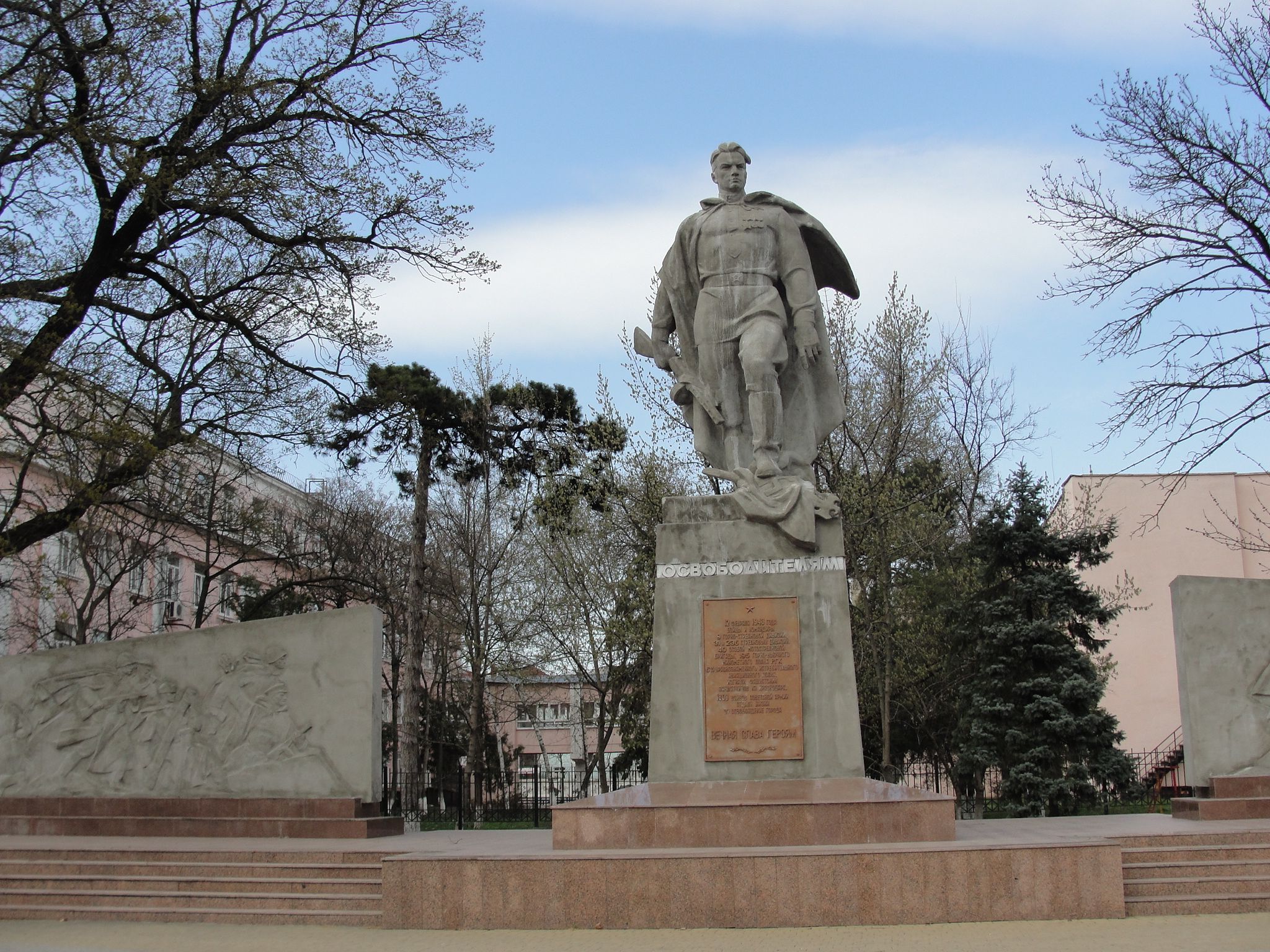 Memorial to liberation of Krasnodar by the Red Army in February 1943